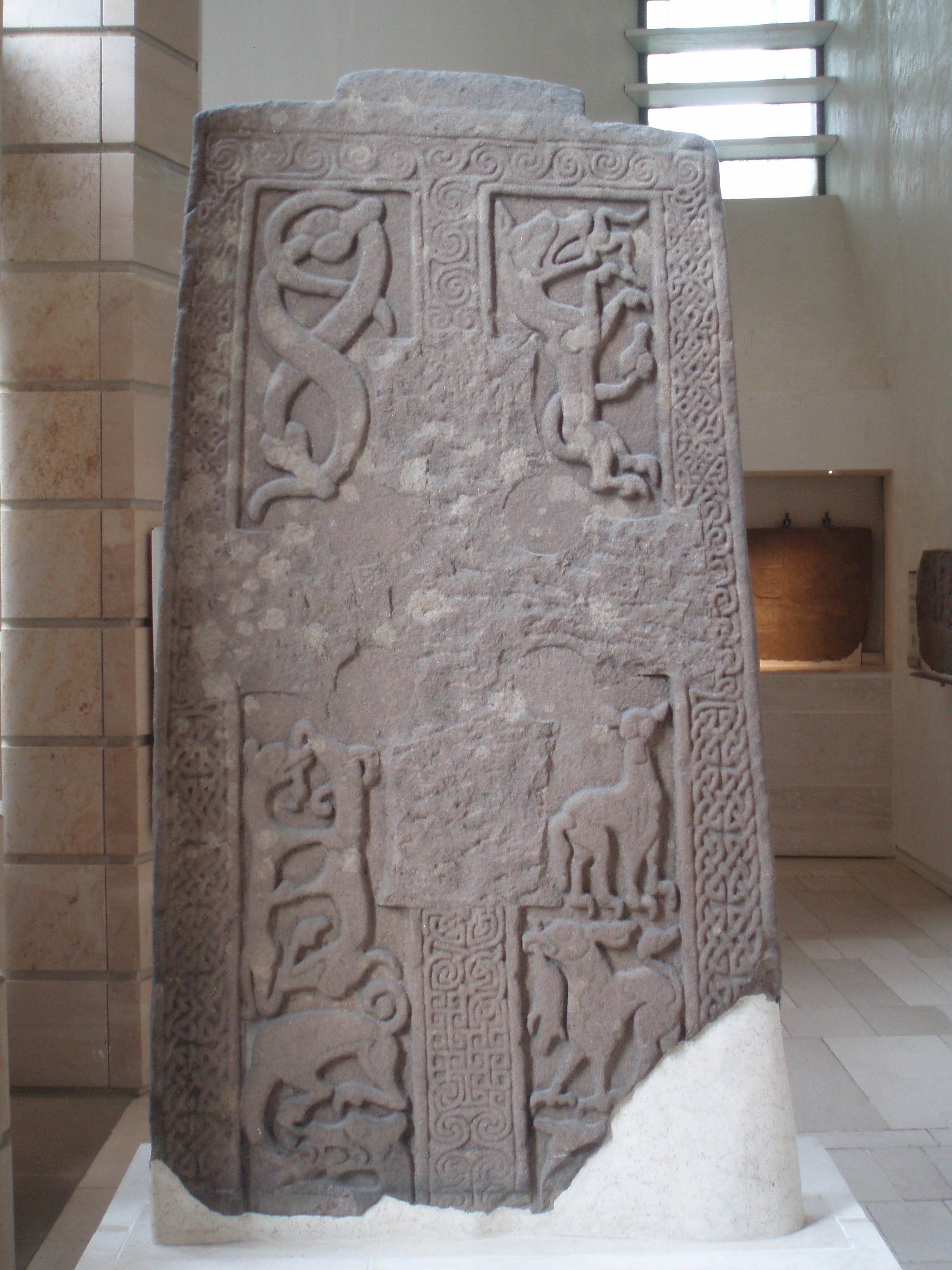 Front of Woodwrae stone, from Woodwrae, Angus, now on display at Museum of Scotland